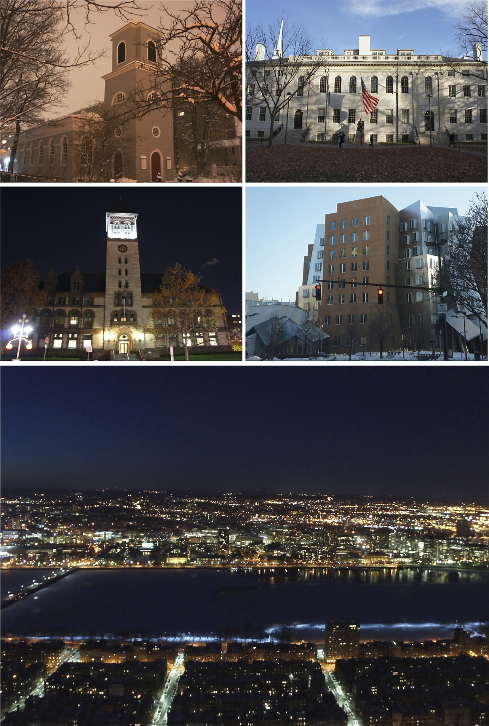 A montage of some photos of landmarks in Cambridge, Massachusetts. Dates (DD/MM/YY) are in parentheses. Clockwise, from top left: Christ Church (05/02/14), University Hall at Harvard University (14/11/13), The MIT Stata Center, an aerial view of Cambridge at night from the Prudential Center Skywalk Observatory (17/02/14), and Cambridge City Hall (08/11/14)